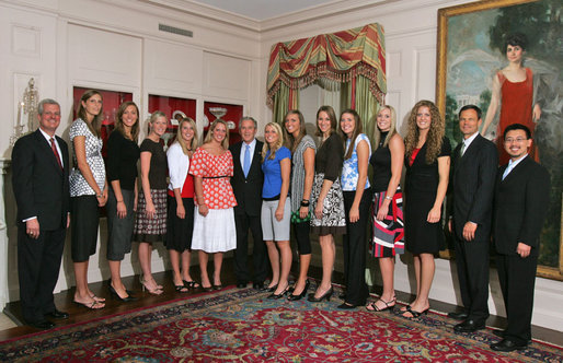 The 2006 NCAA Champion Nebraska volleyball visits the White House